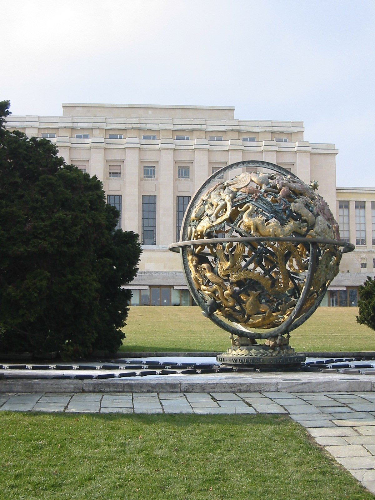 Sulpture in the garden of the ONU building, Geneva.